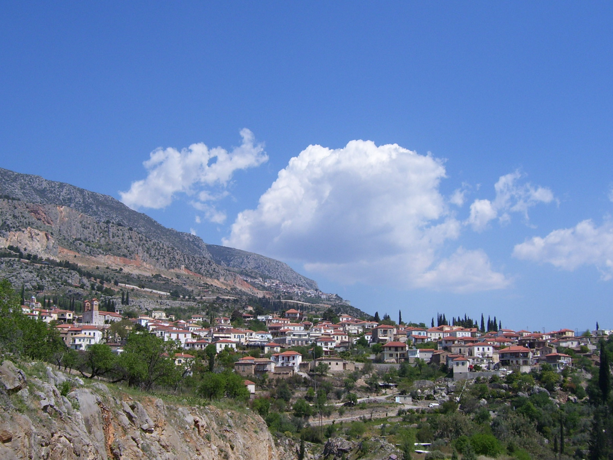 Hrisso village, near Delphi, Phokis